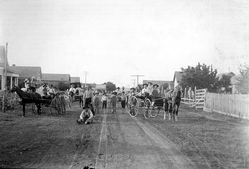 This is a portrait of some of the inhabitants of DeSoto, Texas, taken around 1911.